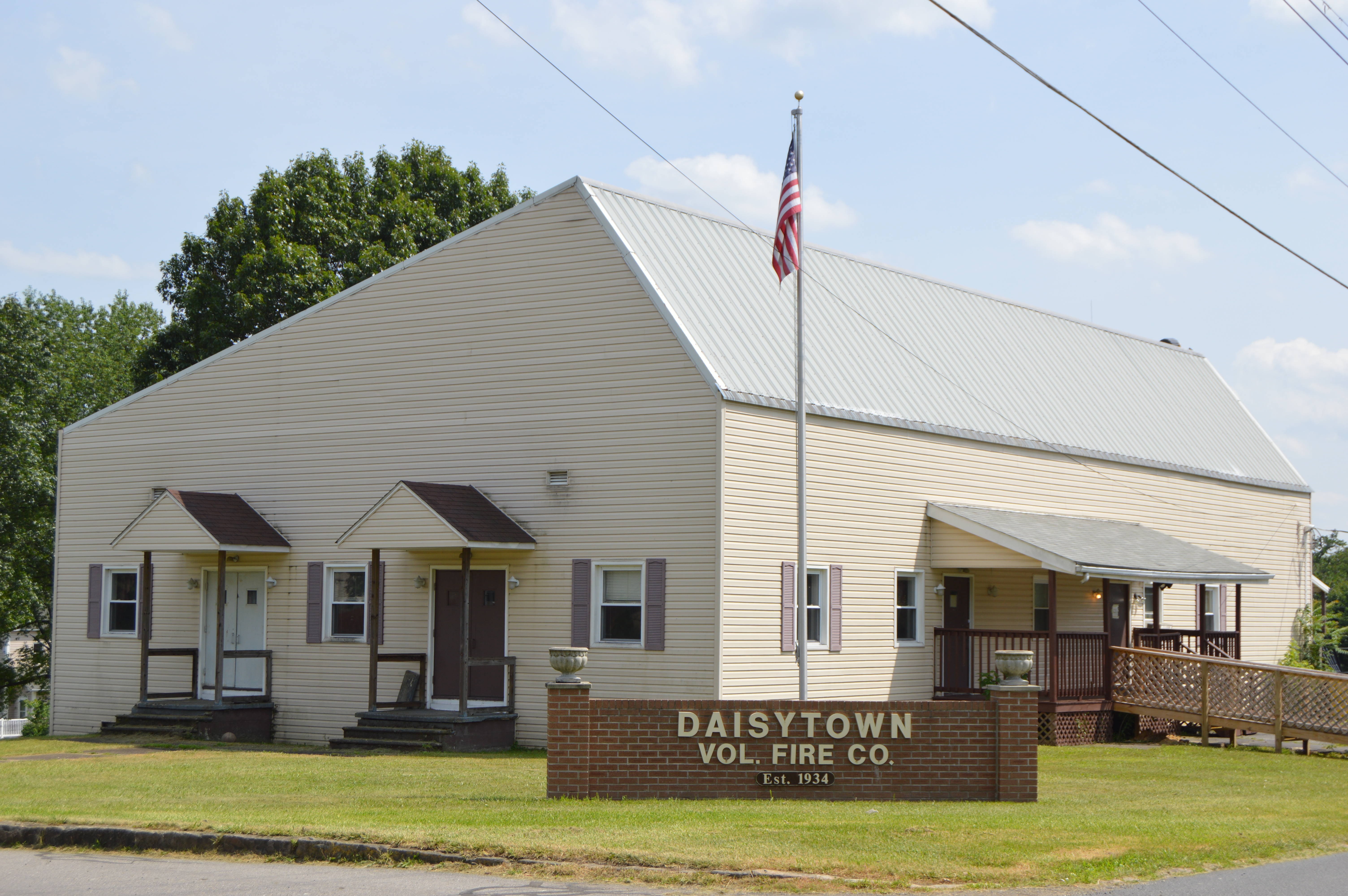 Northern and western sides of the Daisytown Volunteer Fire Department, located at 139 Vogel Street in Daisytown, Pennsylvania, United States.